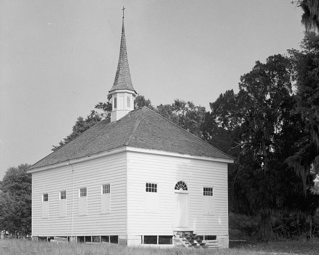 View from the southeast of African-American Baptist Church, Silver Hill Plantation, Friendfield Estate, Georgetown vicinity, Georgetown County, South Carolina. Historic American Buildings Survey, Library of Congress, Washington, D. C.